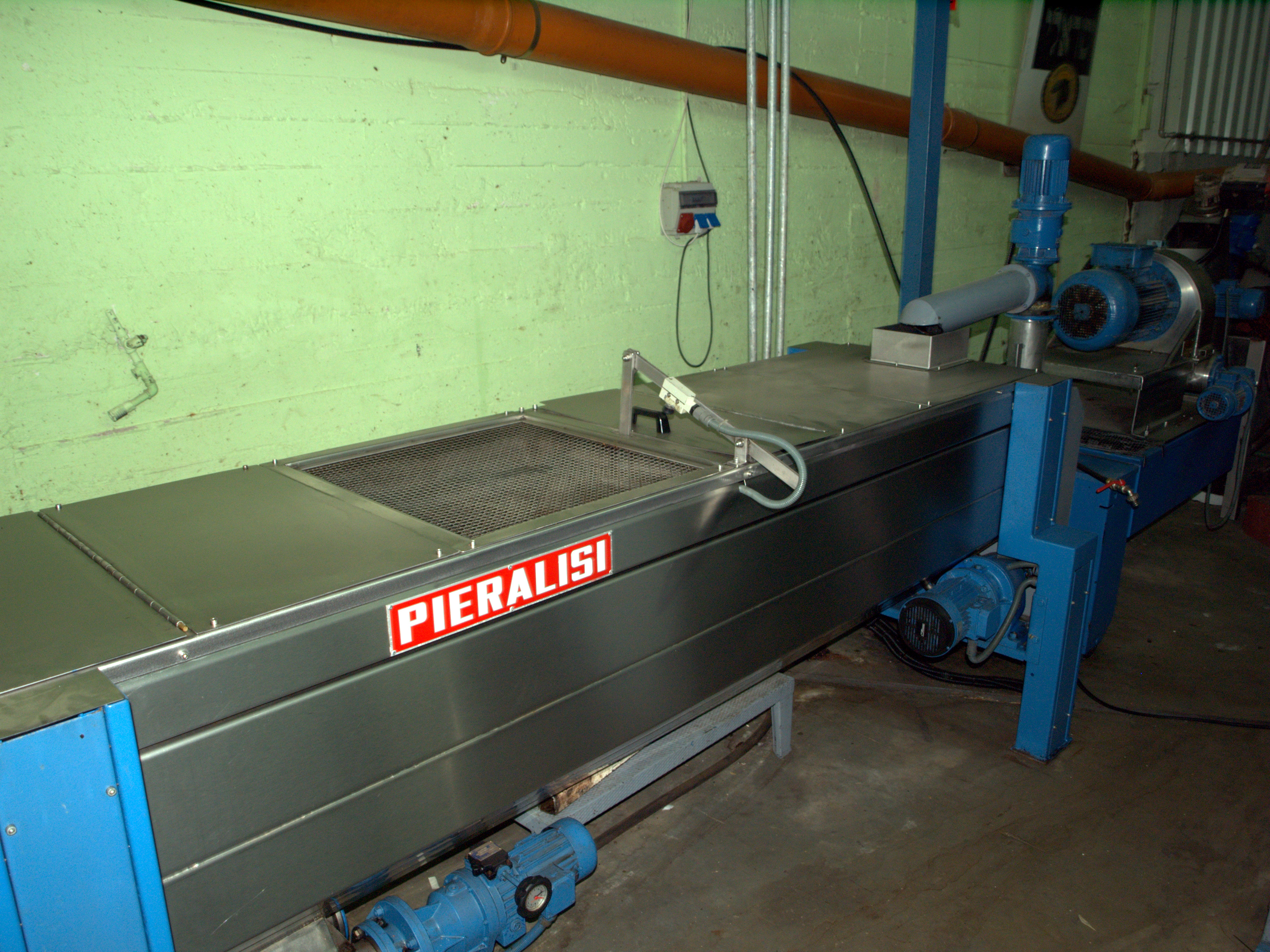 A cold press olive oil machine at Saba Habib manufacturers in Kibbutz Parud in palestine.